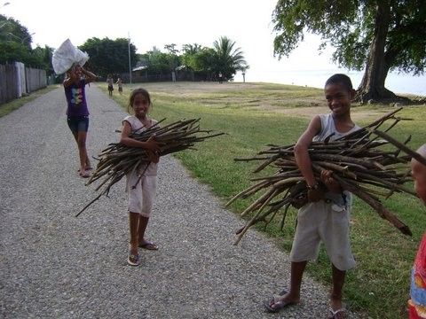 Collecting firewood in Com